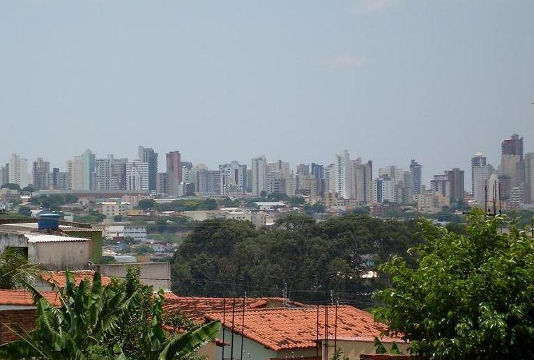 Skyline Uberlandia